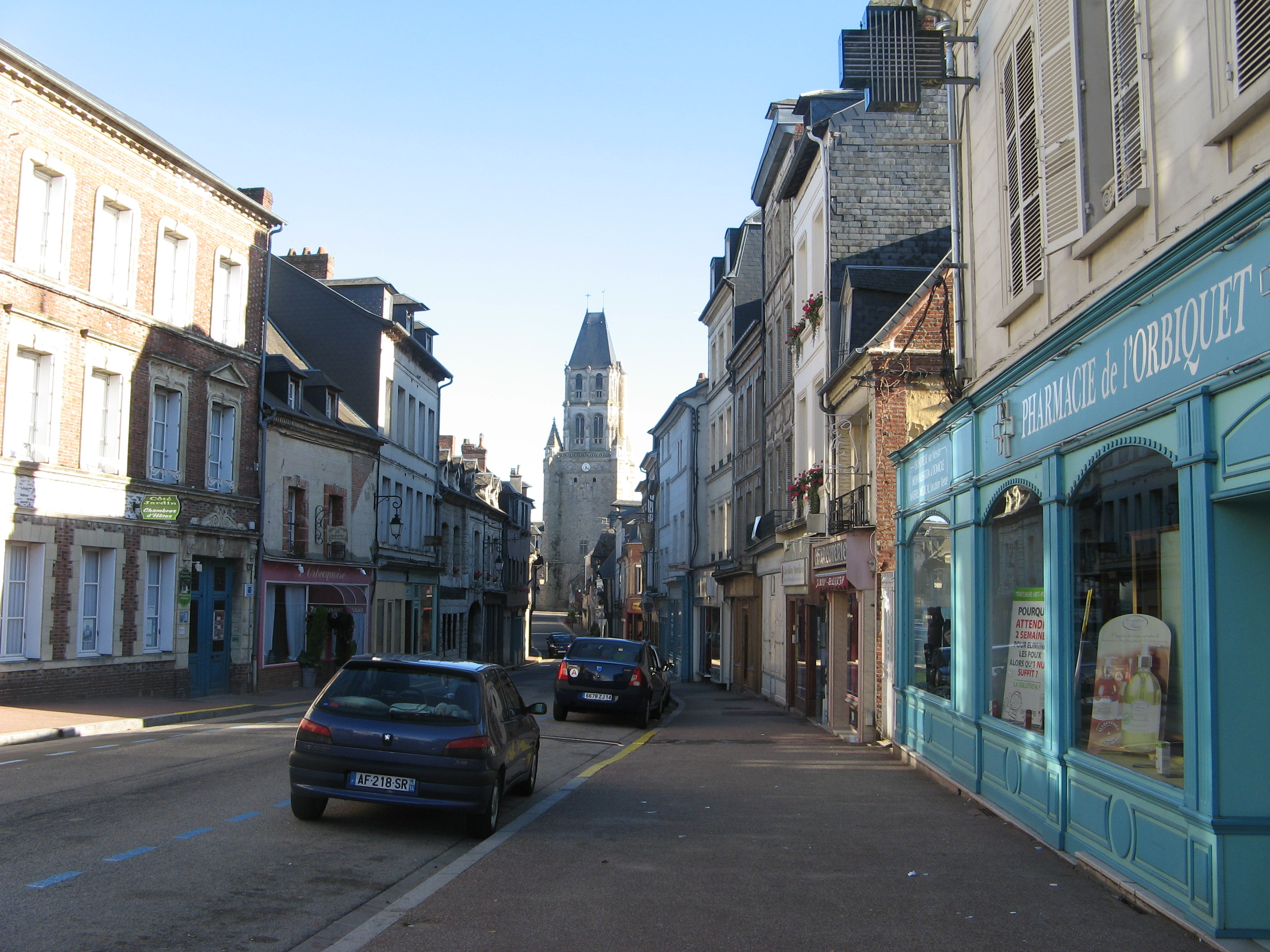 Main street of Orbec